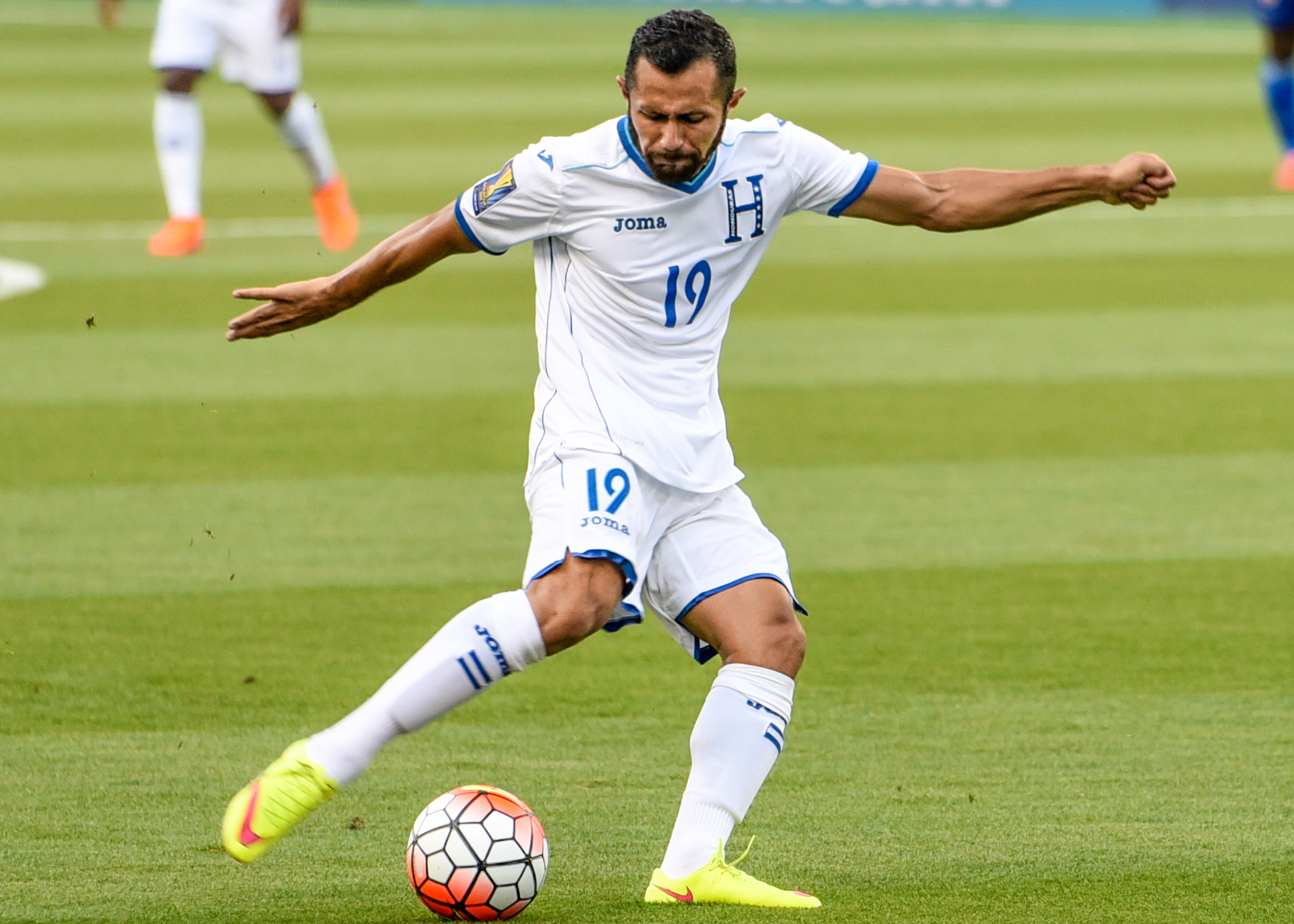 Alfredo Antonio Mejía Escobar (Alfredo Mejía) playing with Honduras Men's National Team against Haiti in the Gold Cup, Kansas City, Kansas. 13JUL2015